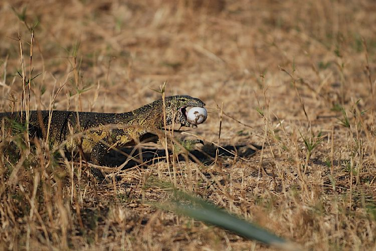 Monitor lizard eating crocodile egg, Katavi National Park, Tanzania